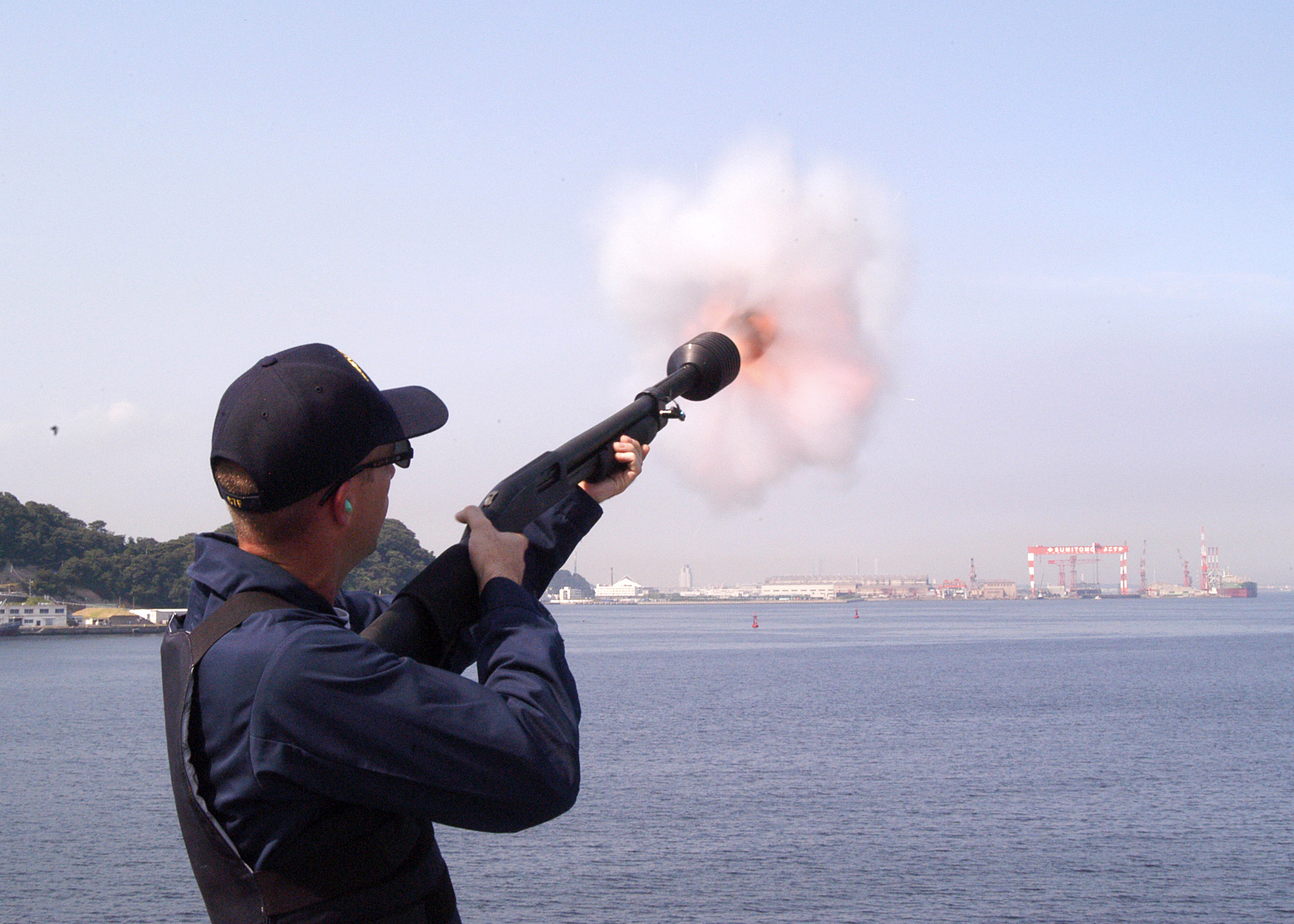 Aboard USS Blue Ridge (LCC 19) Sept. 18, 2003 -- Master-at-Arms 2nd Class Dave Shull, Jr. from Orlando, Fla., shoots a non-lethal sting ball grenade with a AY04 shotgun during a daytime Force Protection Demonstration on the fantail of USS Blue Ridge. The airburst devices are intended to warn approaching vessels that they should come no closer. U.S. Navy photo by Photographer’s Mate 1st Class Novia E. Harrington. (RELEASED)